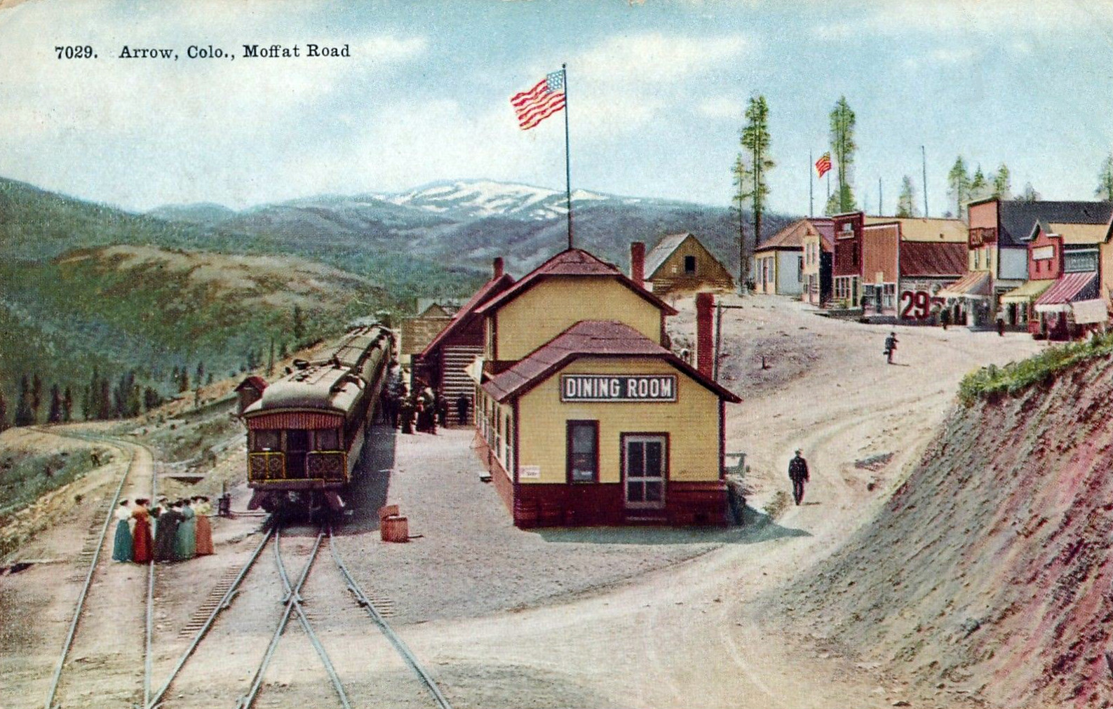 Postcard photo of Arrow, Colorado, a sightseeing stop on the Denver and Salt Lake Railway. Arrow was on the western side of the Rockies and was west of Rollins Pass and its Corona sightseeing stop.